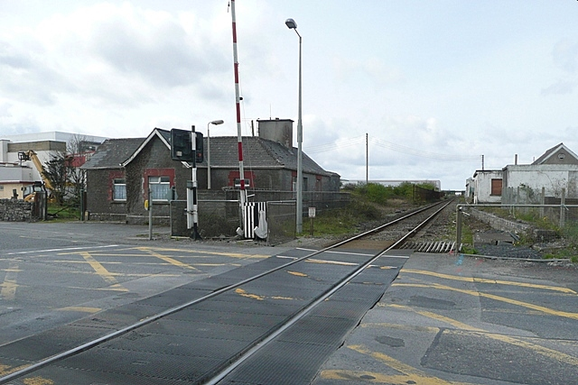 Level crossing at Oranmore This is the Athenry to Galway railway line, about six kilometres from its terminus in Galway. The N18 crosses the line here.